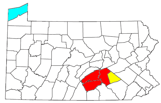 Locator map of the Harrisburg metro area in the south central part of the U.S. state of Pennsylvania. Red denotes the Harrisburg-Carlisle Metropolitan Statistical Area, and yellow denotes the Lebanon Micropolitan Statistical Area, which is included in the Harrisburg-Carlisle-Lebanon CSA.